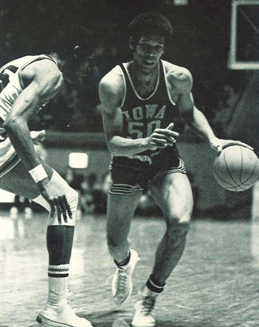 University of Iowa Hawkeyes basketball player John Johnson from the 1970 “Hawkeye” yearbook